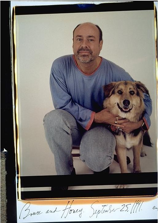 Bruce Cratsley And Honey, Elsa Dorfman. The author of the article wrote to the photographer (Elsa Dorfman), requesting use of the portraits she did of Bruce Cratsley, and these images were provided as the primary means of visual identification of the subject of the article. This is a photograph (taken by the artist) of the main subject of the article and also illustrates the artist's life (his lover, his dogs). The subject is unique, and it cannot be replaced with text or free content media. I have the original email in which the phographer, retired from active work, is allowing me the use of these specific images. Do not crop images, they are art work thought like this